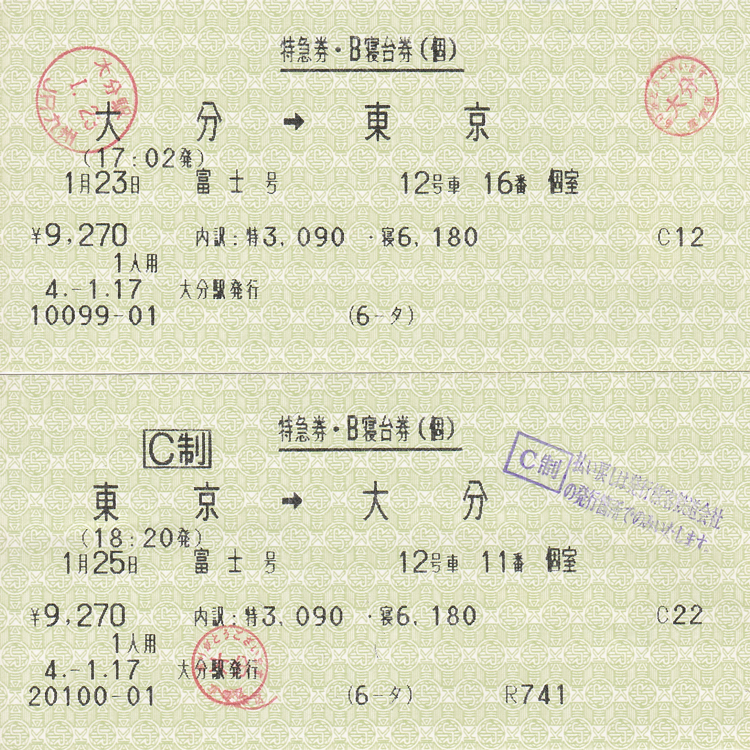 Limited express ticket and sleeper ticket for Fuji